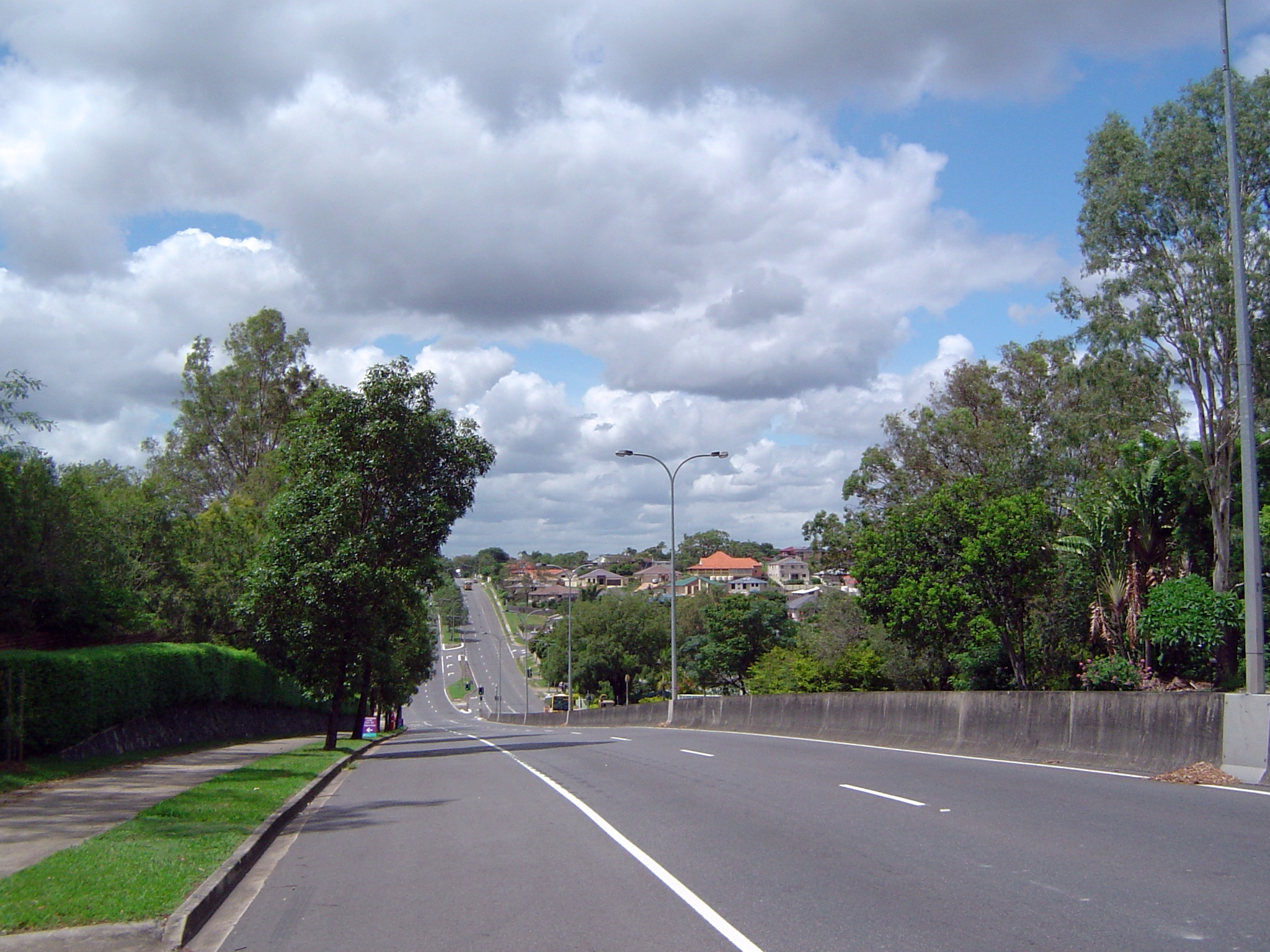 Photo of Blunder Road at Durack, Brisbane, Queensland, Australia.